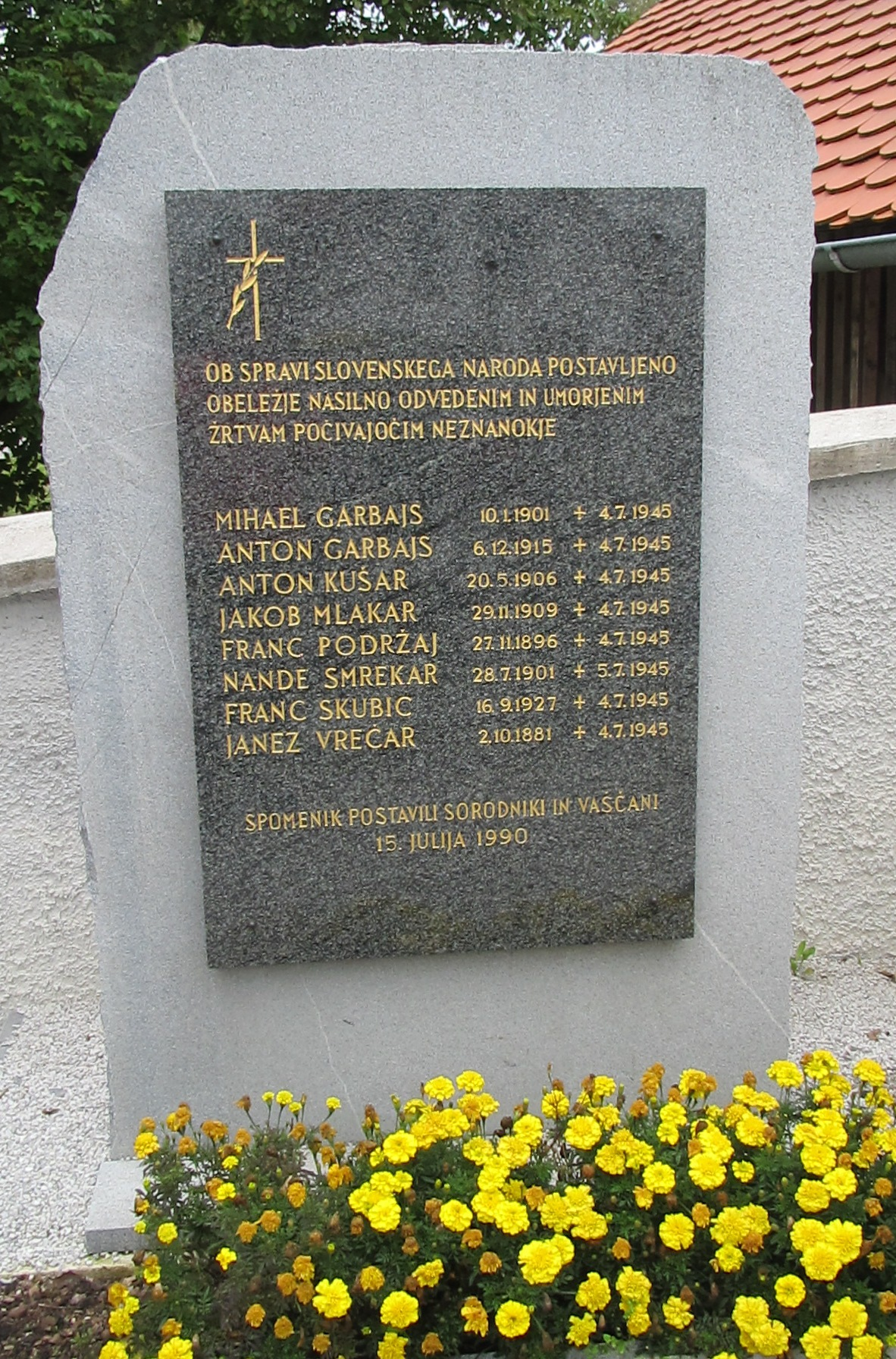 Memorial at the village cemetery in Šentpavel, City Municipality of Ljubljana, Slovenia commemorating eight men abducted and murdered by the military police in July 1945.